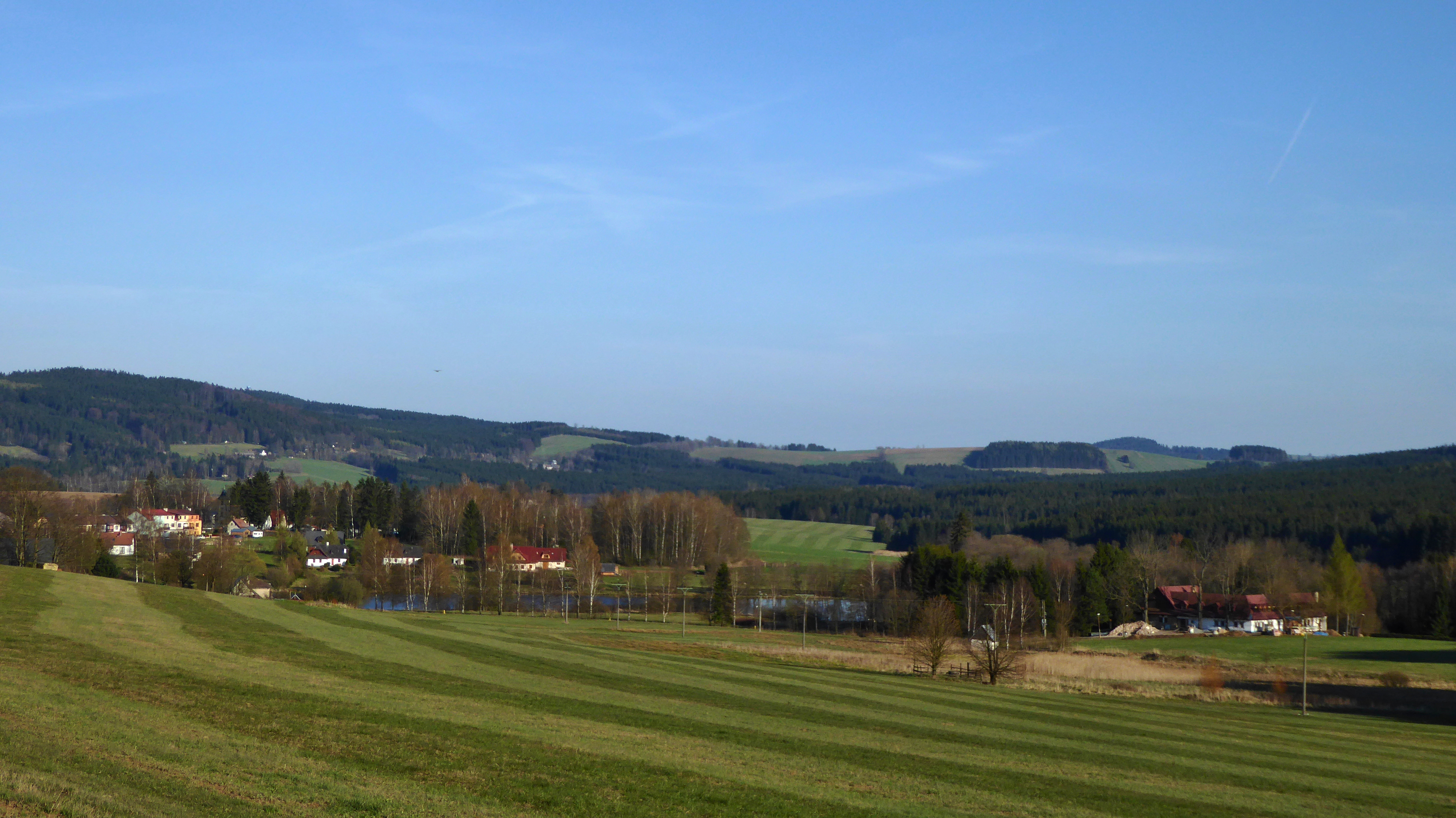 The "Milovská" basin is a landscape area (orography unit) and a geomorphological district in the central part of "Žďárské" hills. It is a part of the "Hornosvratecká" highland in the regional division of the shape of the Earth's surface (georelief) of the Czech Republic. View of the village of Křižánky and "Kyšperský" pond. The name of the basin is derived from the settlement "Milovy". The Svratka River runs through the wide valley. The river forms the border between Bohemia and Moravia. Photo location: Czechia, Vysočina Region, villages Křižánky.